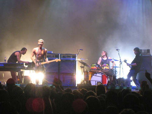 Silverchair on stage on August 10 2006. Left to right: Paul Mac, Daniel Johns, Chris Joannou, Ben Gillies